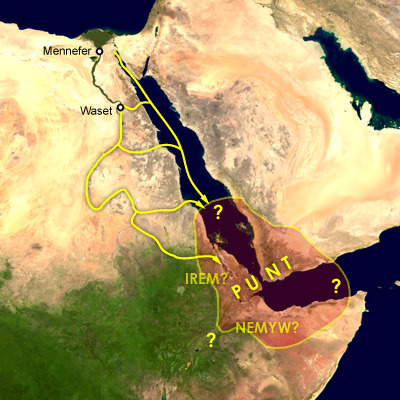 Map of the supposed location of Punt and trade routes from Egypt to Punt via rivers, wadis, and by sea. Mennefer is Memphis, Waset is Thebes, Irem and Nemyw are lands that supposedly border on Punt